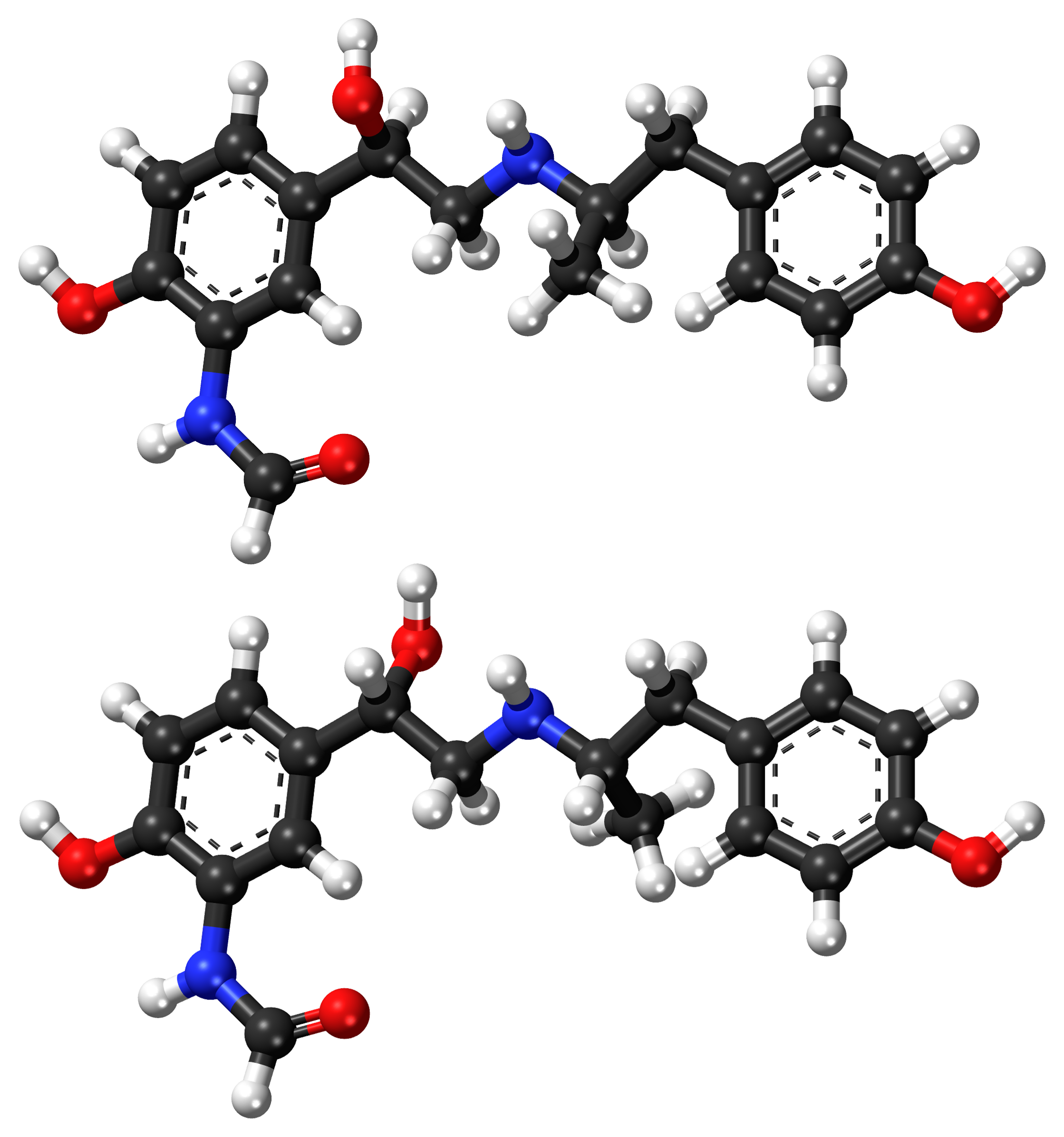 Ball-and-stick model of formoterol (brand name Foradil/Foradile) — a long-acting β2 adrenoreceptor agonist used in the management of asthma and COPD. Formoterol is a racemic mixture consisting of (R,R)-(−)- and (S,S)-(+)-enantiomers. Both enantiomers shown. Colors used: Carbon, C: black Hydrogen, H: white Nitrogen, N: blue Oxygen, O: red This image was created with Discovery Studio Visualizer.